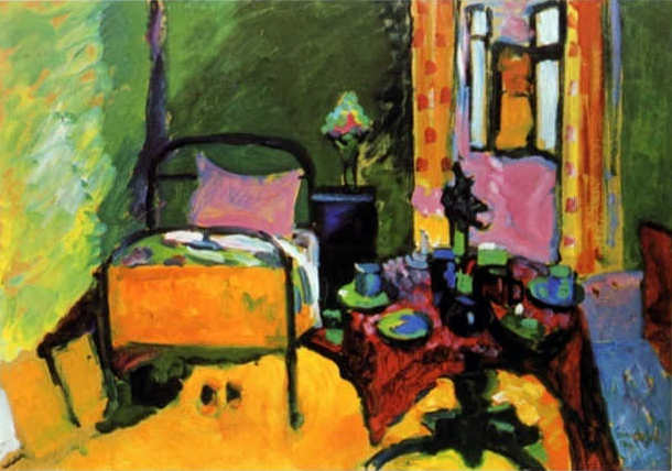 Bedroom in Aintmillerstrasse, oil on canvas 48,5х69,5 sm Städtische Galerie im Lenbachhaus und Kunstbau, München, Germany.